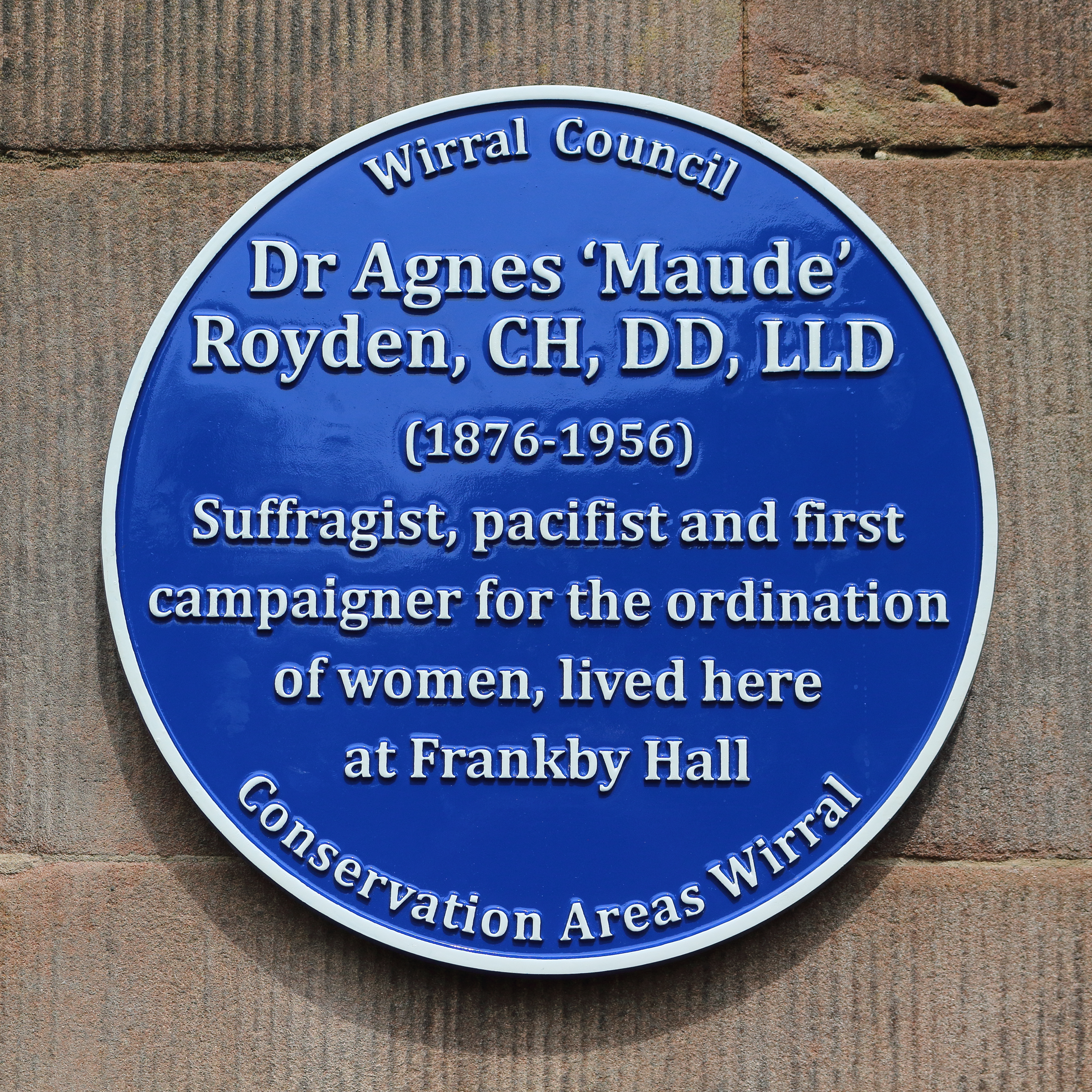 Plaque to Maude Royden on the southern elevation of Frankby Hall, unveiled on 28th June 2016.